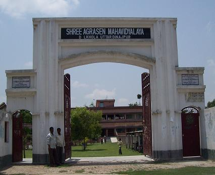 this is the only college in Dlk